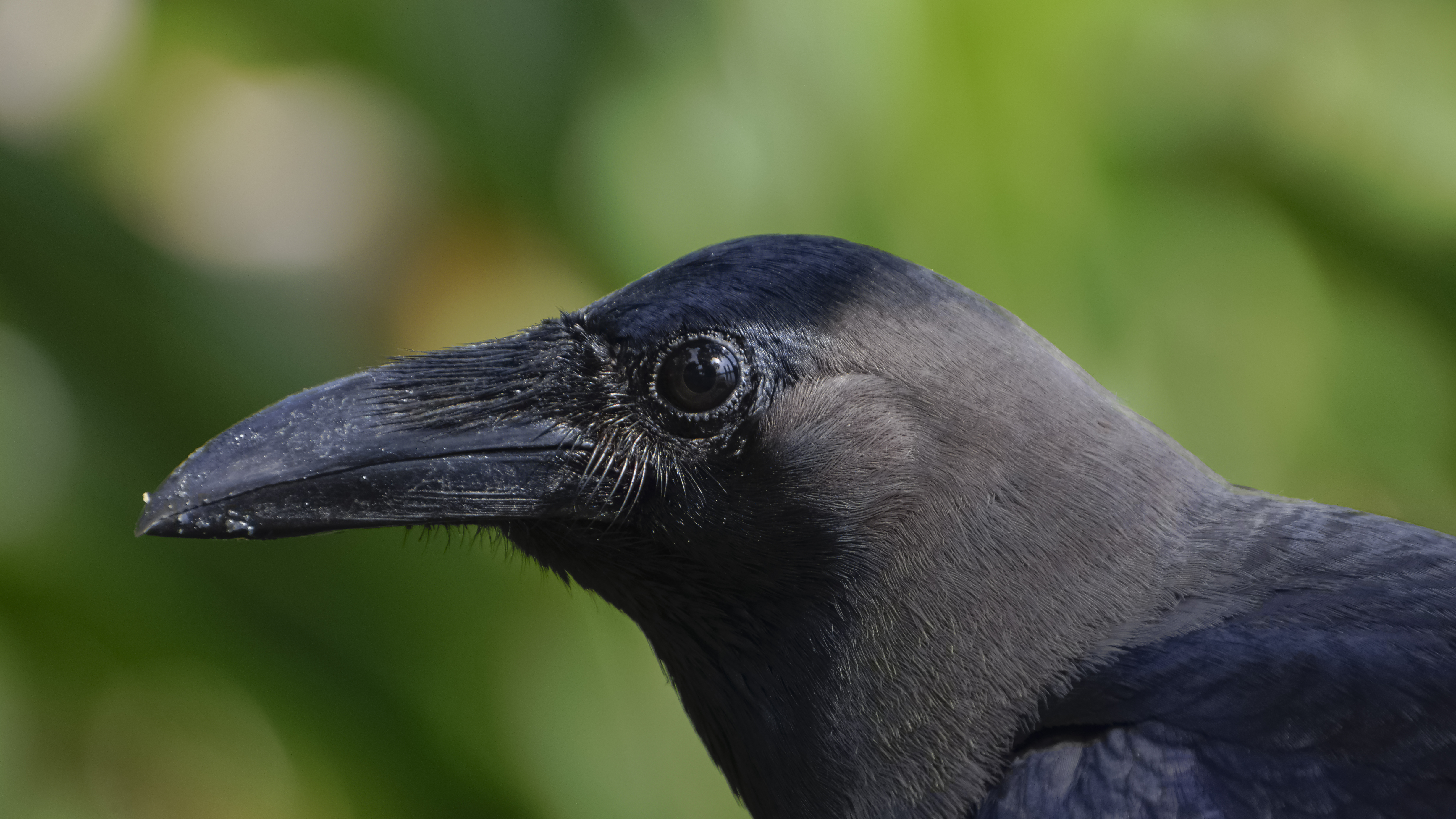 The head of a House crow (Corvus splendens).